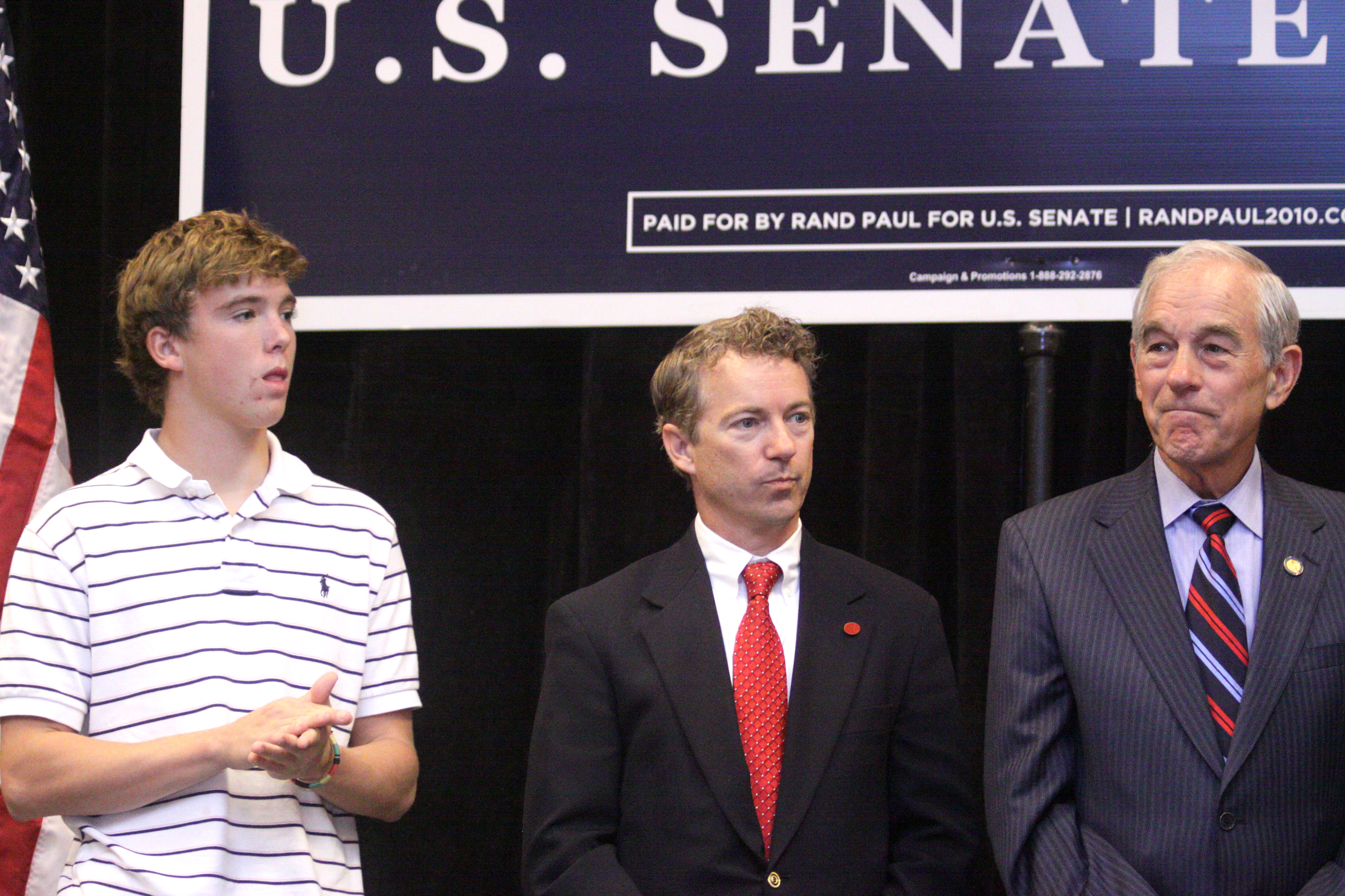 United States Senate candidate Rand Paul at a rally in Erlanger, Kentucky, along with Texas Congressman Ron Paul and his son, Will Paul. Unauthorized use by any candidate or candidate's committee is strictly prohibited without approval.